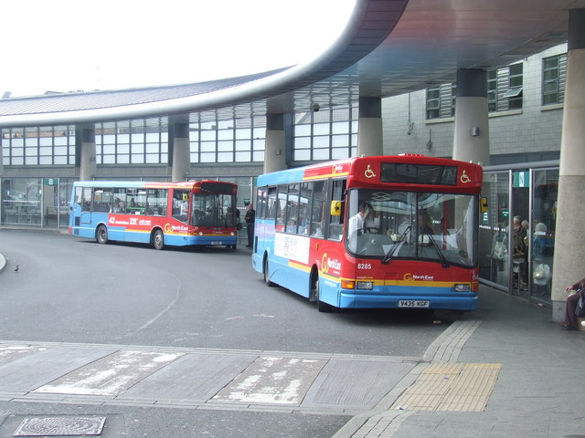 Buses in Park Lane Interchange Sunderland's Park Lane Interchange, opened in 2002, replaced a previous bus station and depot on the same site.